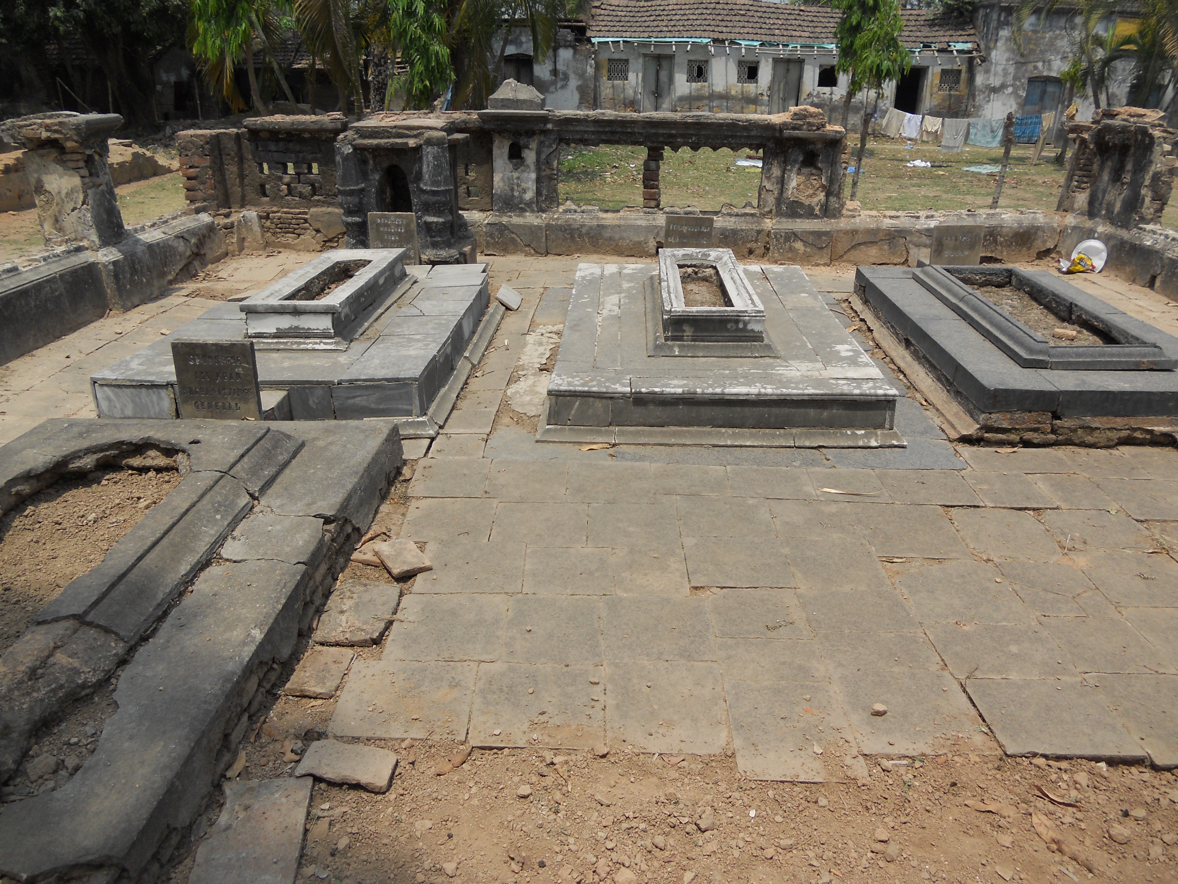 Graves of Nawazish Muhammad Khan, his adopted son Ekram-ud-Daulah, Ekram's tutor, Shamsher Ali Khan, Nawazish's general and Ekram's nurse in Motijheel, Murshidabad